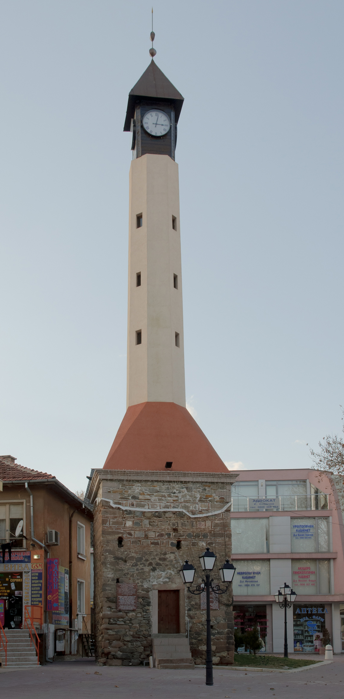 The old clock tower at Unification Square in the city of Pazardzhik, Bulgaria.